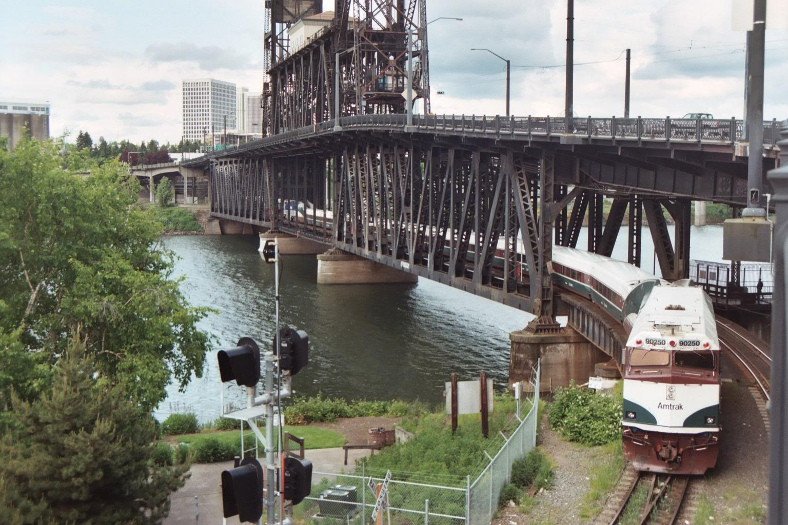 Cascades/Talgo train crossing Steel Bridge in Portland on its way to Eugene, OR.